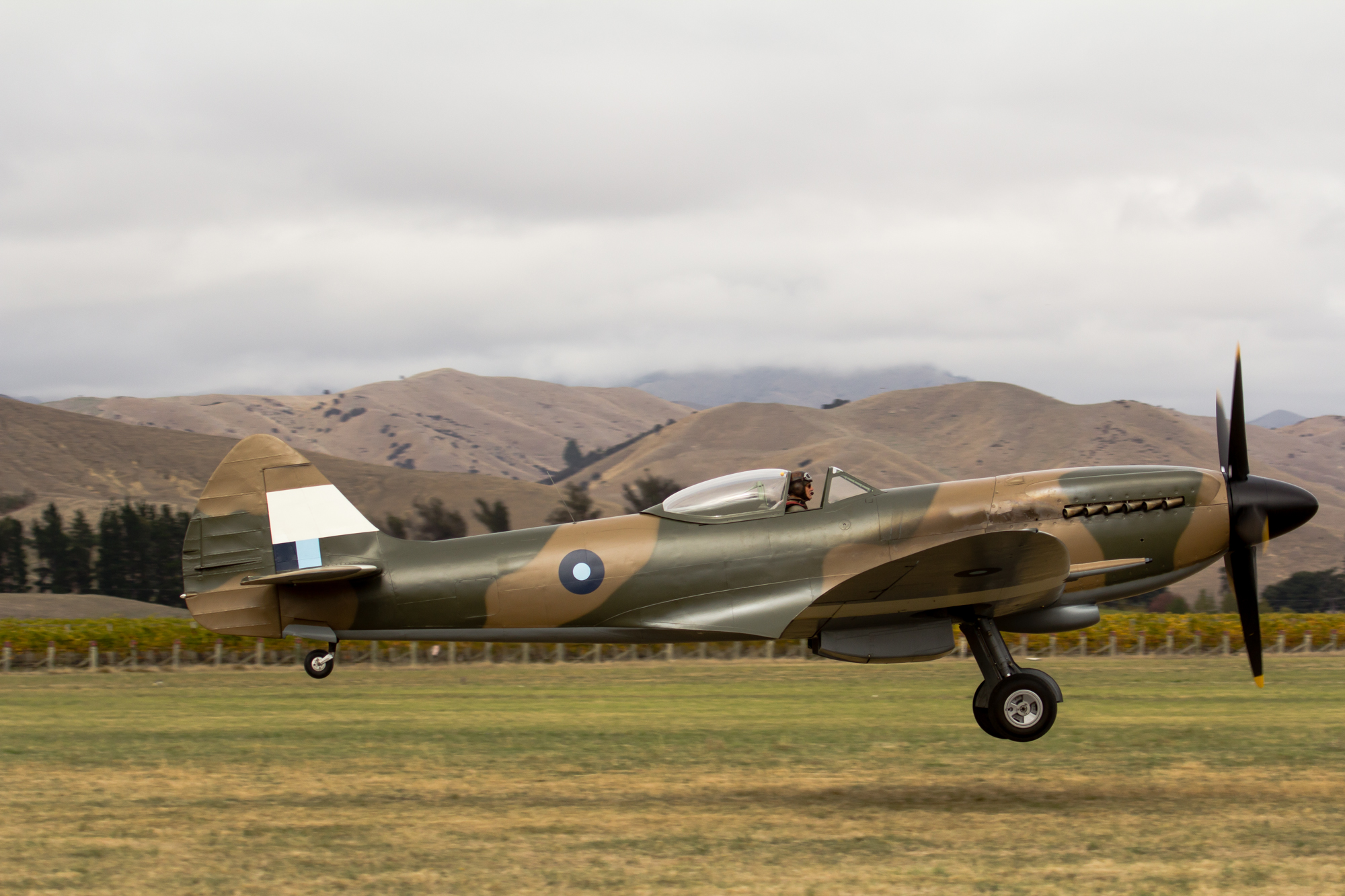 Classic Fighters 2015 - Supermarine Spitfire Mk. XIVe NH799 (ZK-XIV)